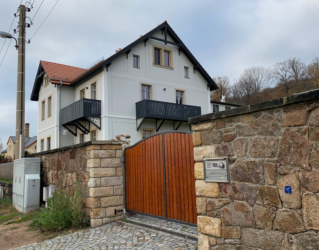 Outbuilding of the Hohenhaus after renovation, Mittlere Bergstraße 20